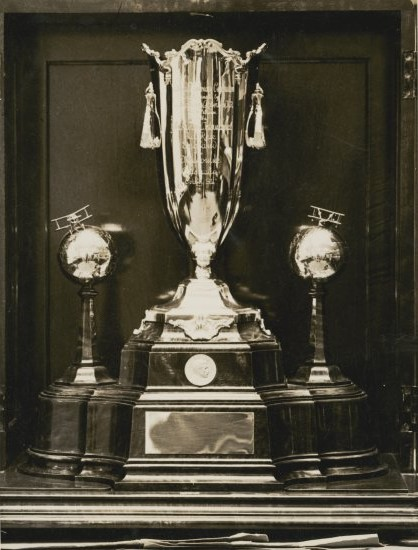 photograph of the MacRobertson Air Race trophy, won by C.W.A. Scott and Tom Campbell Black published in 1934 by the Sydney Morning Herald.